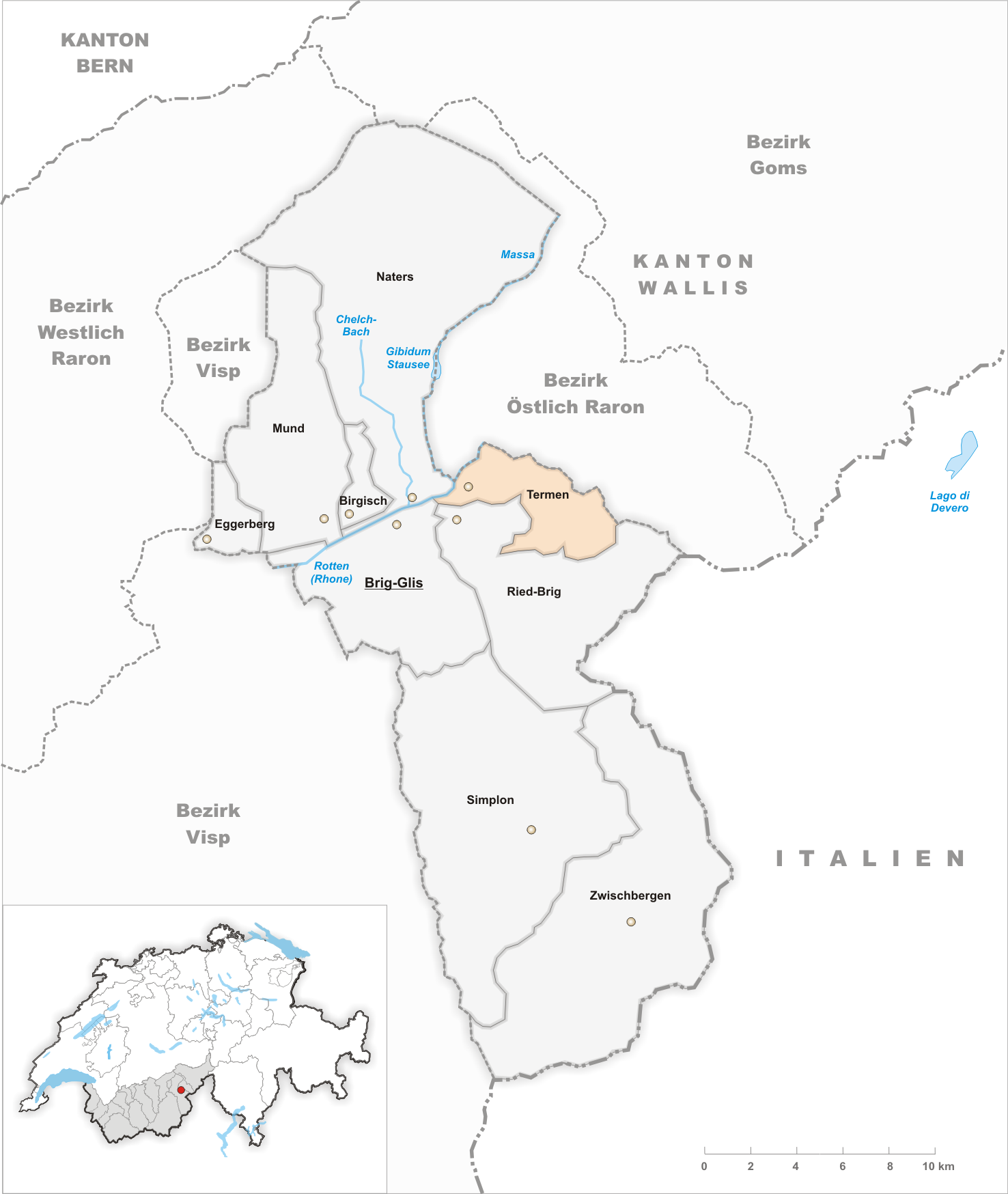 Municipality Termen